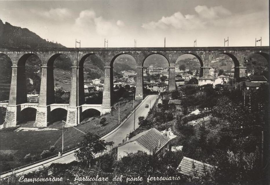 Ponte di Campomorone 1910